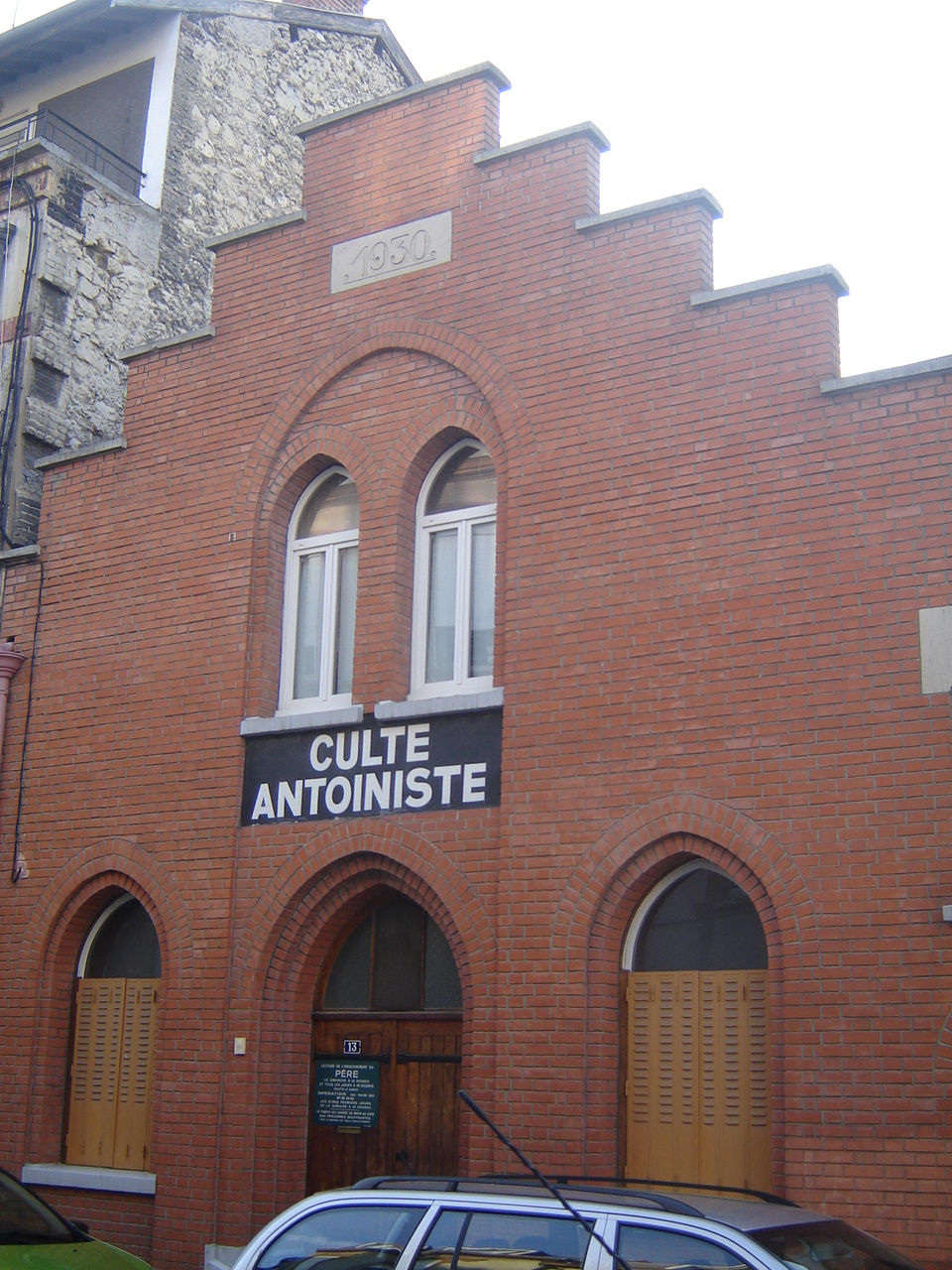 Antoinist temple in Reims, France